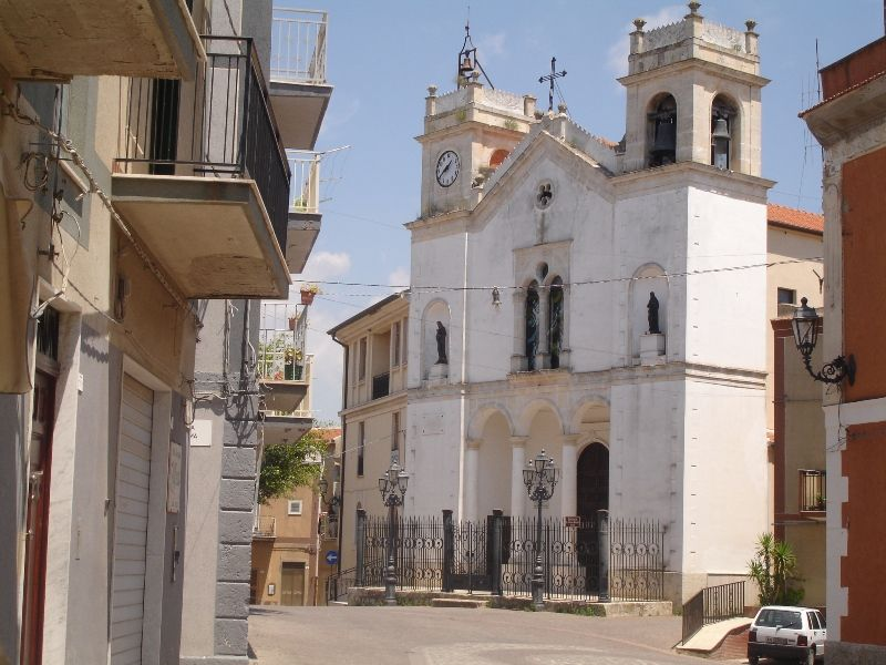 chiesa sant antonio abate (a Castrofilippo?)